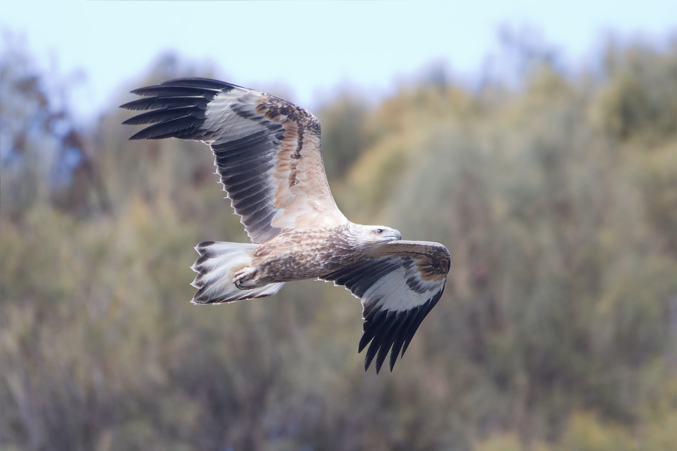 White-bellied Sea Eagle (Haliaeetus leucogaster), Derwent River Estuary, Tasmania, Australia